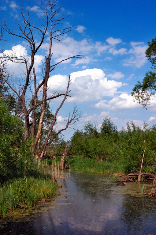 Wetlands alongside Rudava river